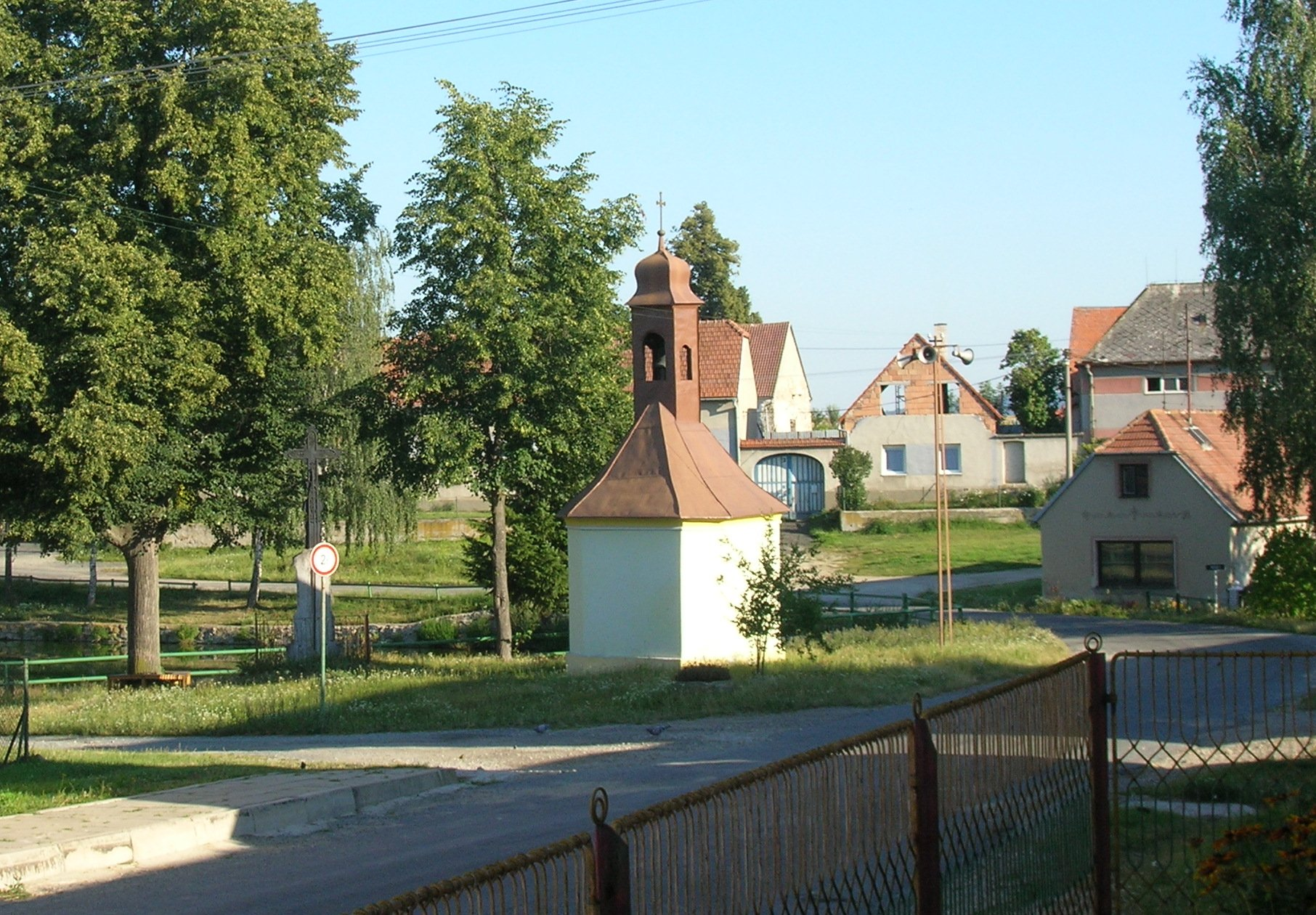 Jaroměřice nad Rokytnou-Příložany. Village square.